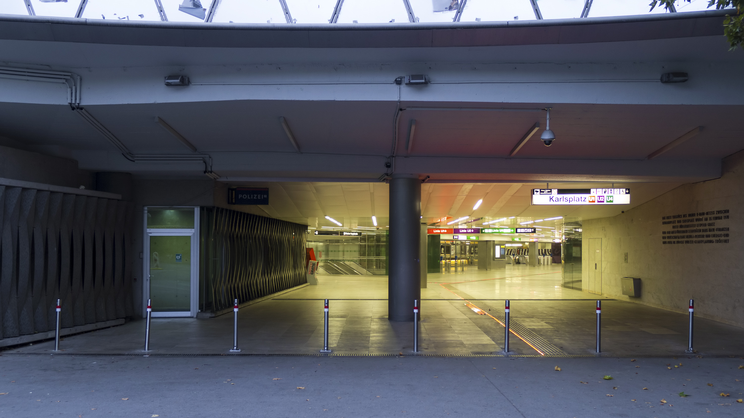 Opernpassage in Vienna 1